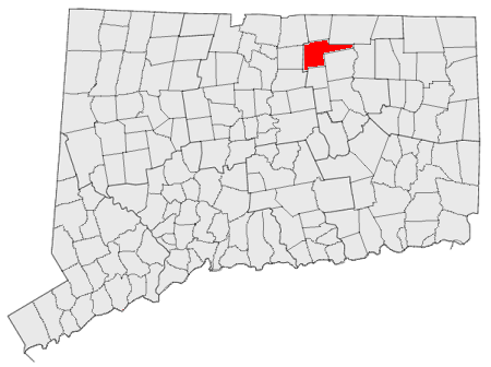 I modified this from Image:US-CT-Fairfield.png, itself a GNU Licensed file